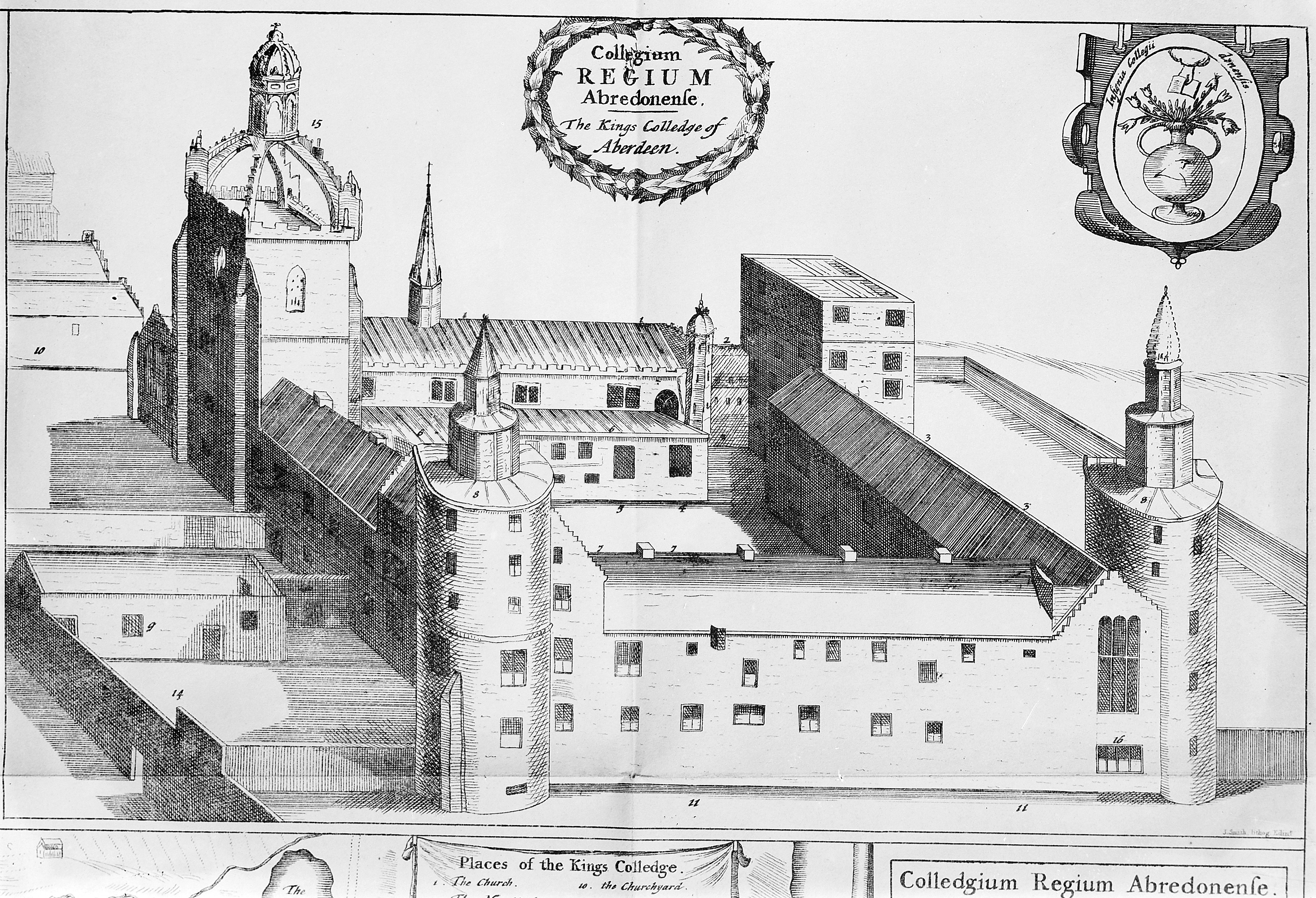 Kings College, Aberdeen about 1661. Wellcome states: Engraving from Gordon of Rothemays plan of Aberdeen. From: History of Scottish Medicine page 366 Available here in slightly different version on p138